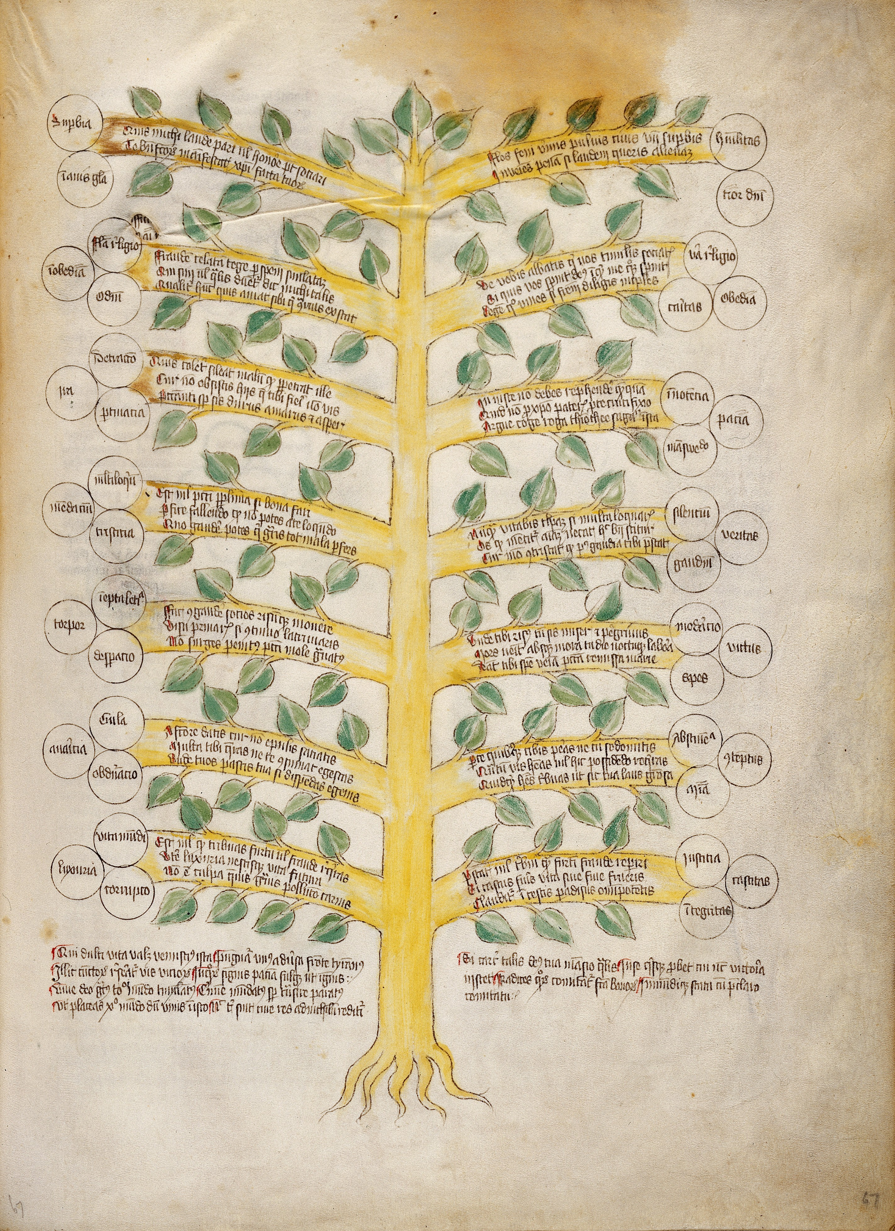 A Tree of twenty vices and twenty virtues Archives & Manuscripts Keywords: apocalypsis; Medieval; Middle Ages